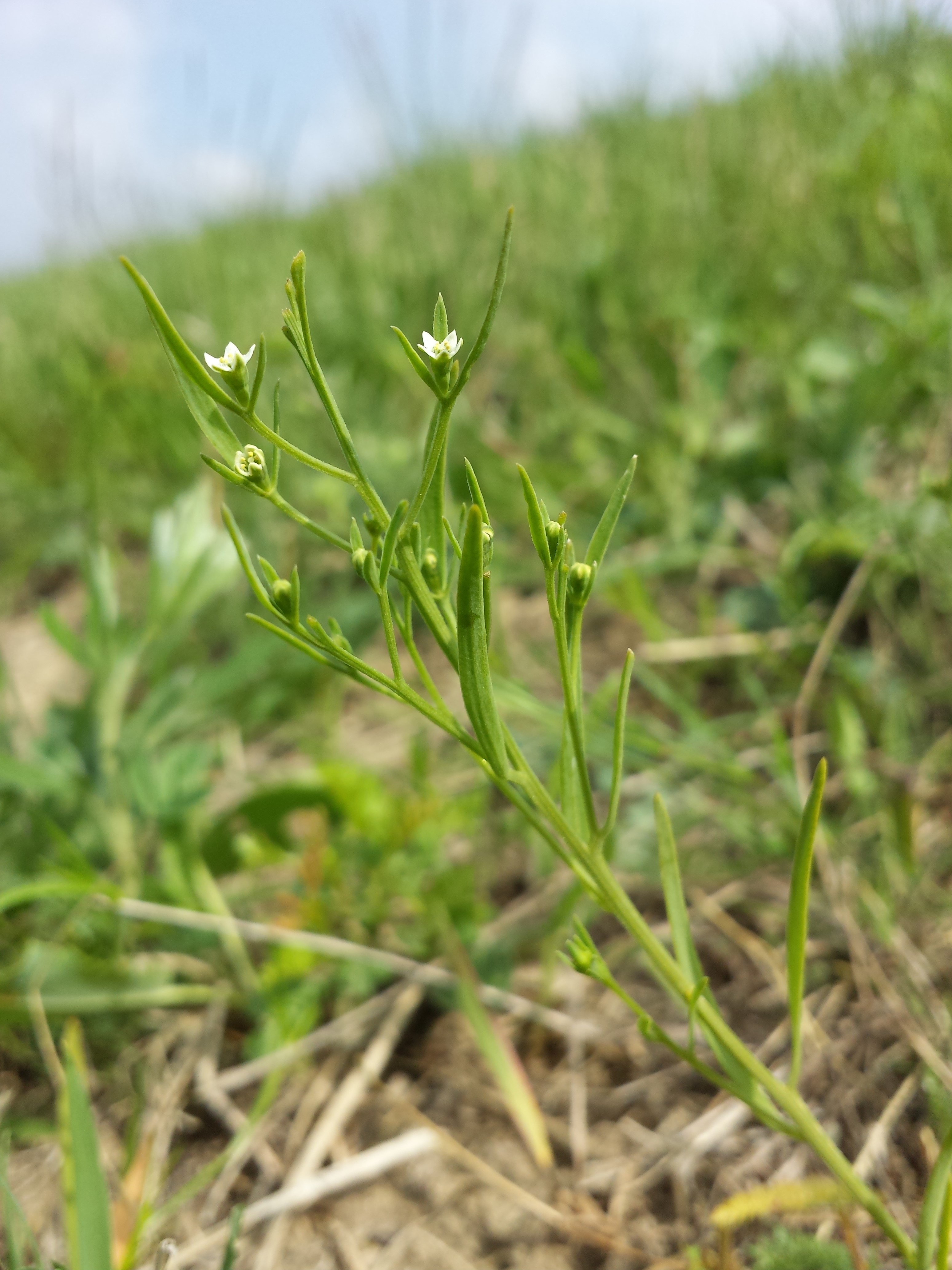 Florescence Taxon: Thesium ramosum (sensu Fischer et al. EfÖLS 2008 ISBN 978-3-85474-187-9) Location: Haulesbergen, Ulrichskirchen-Schleinbach, district Mistelbach, Lower Austria - ca. 200 m a.s.l. Habitat: semi dry grassland over Loess